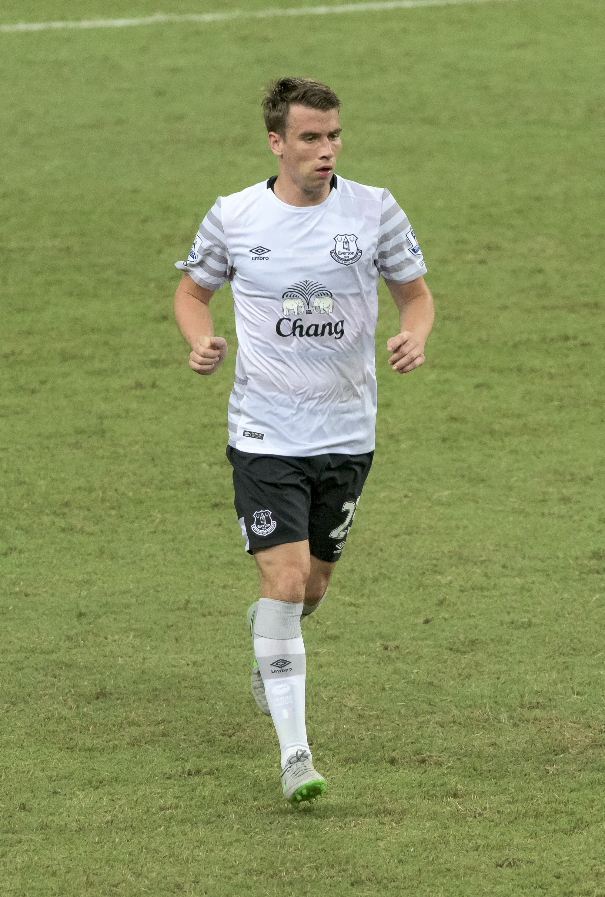 seamus coleman everton 2015 barclays asia singapore